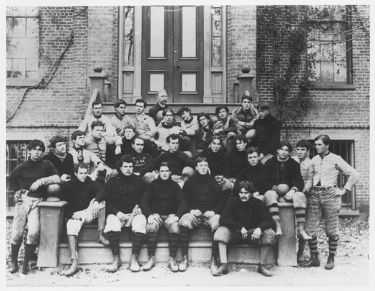 Team photograph of the Virginia Tech Hokies football team in 1896. Uploaded from Virginia Tech Imagebase